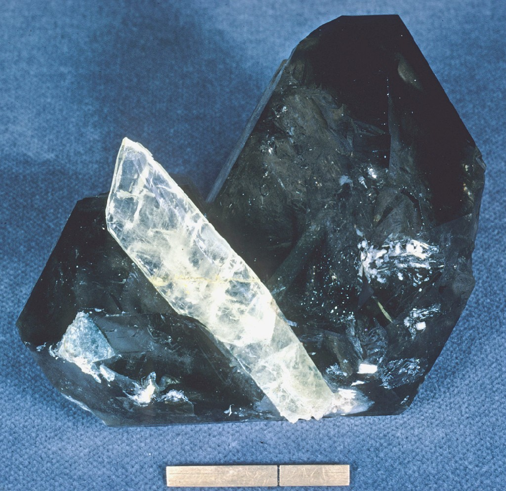 Amblygonite with smoky quartz - Locality: Taquaral, Itinga, Jequitinhonha valley, Minas Gerais, Southeast Region, Brazil - Specimen is from the collection of Ed Swoboda 1972 - Scale at bottom of image is one inch with a rule at one cm.